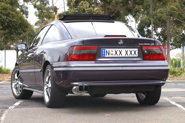 1996 Holden Calibra, photographed in New South Wales, Australia.